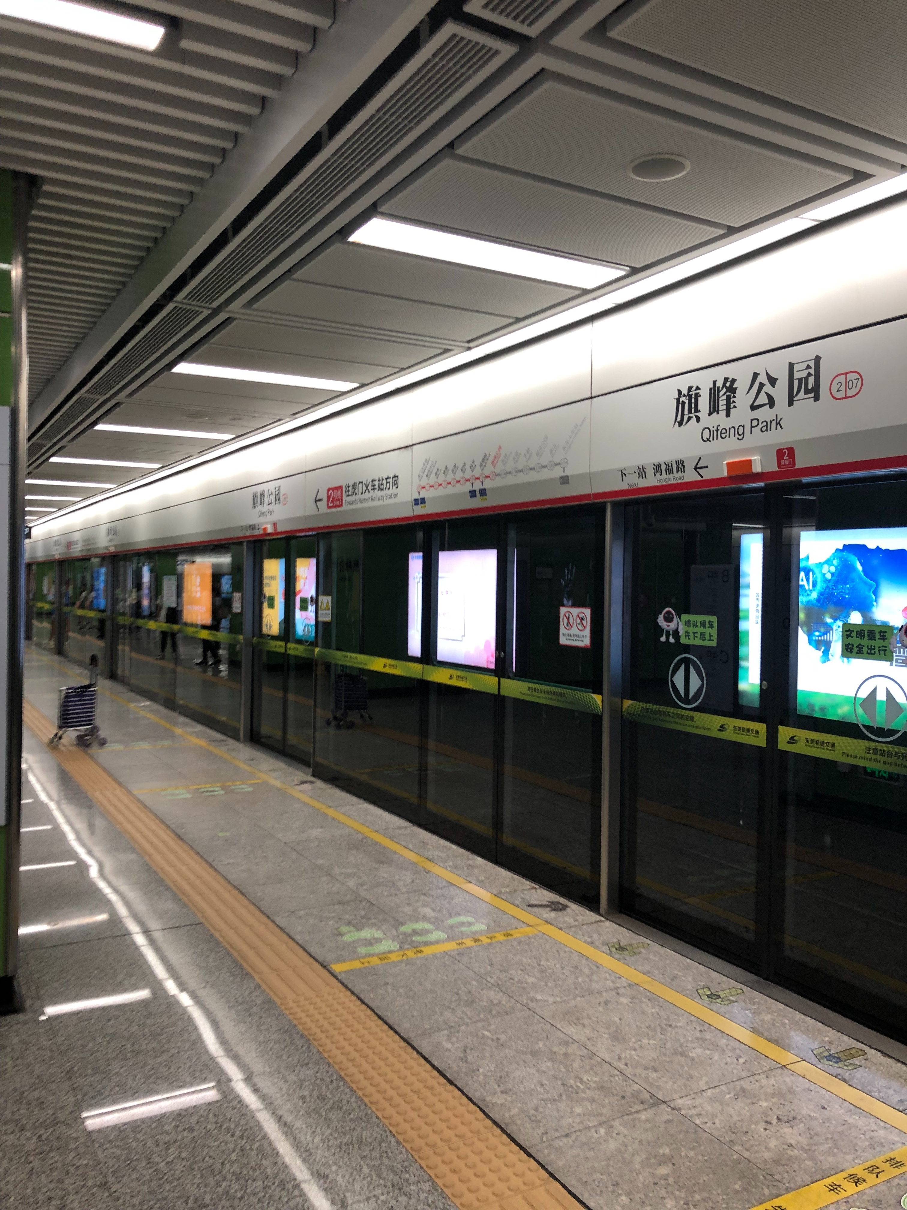 南城, 东莞市, 中国, July 2019